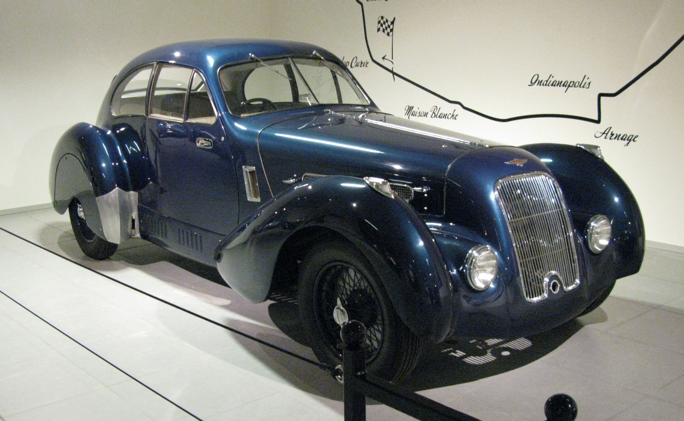 1939 Lagonda V12 Lancefield.